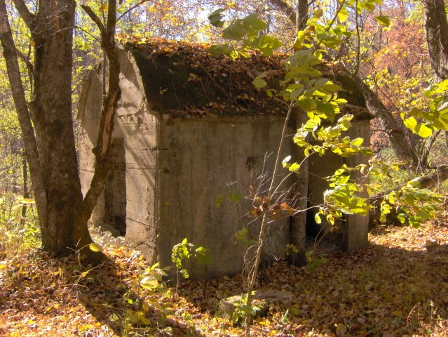 Drying kiln at the Ritter Mill Site on Hazel Creek in the Great Smoky Mountains of North Carolina, located in the Southeastern United States. The Ritter Mill operated 1910-1928. These kilns were used to dry lumber for flooring.